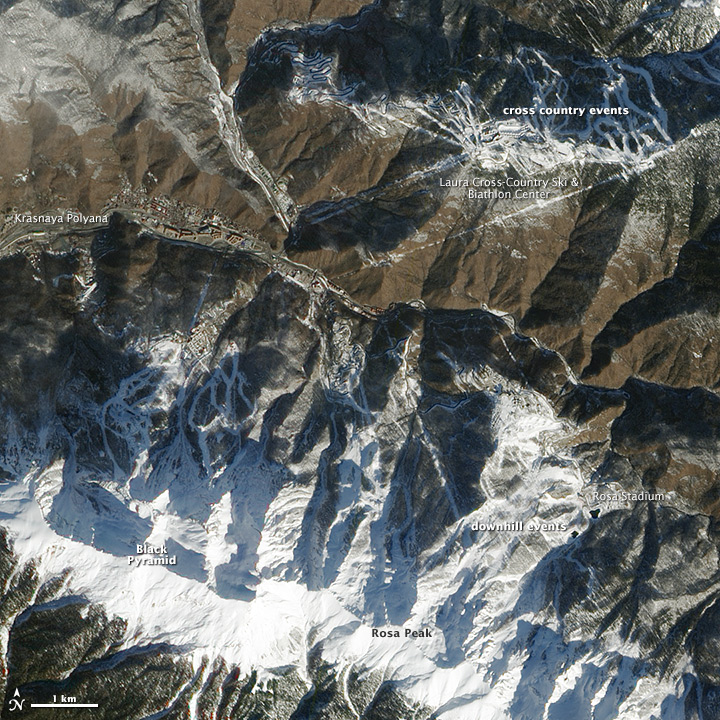 While Sochi is a coastal town on the Black Sea, the skiing events for the XXII Olympic Games are taking place about 40 kilometers (25 miles) inland. The venues are clustered around Krasnaya Polyana, a small town tucked between the Aibiga and Psekhako Ridges in the western Caucasus. This image—acquired by the Advanced Land Imager (ALI) on NASA’s Earth Observing-1 (EO-1) satellite on February 8, 2014—offers a view of the town and the ski facilities. The Rosa Khutor Alpine Center is the home to the downhill, snowboard, and freestyle events. The combined downhill skiing area measures about 20 kilometers (12 miles) in total, with the men’s downhill course stretching 3,500 meters (11,482 feet) and featuring a 1,075-meter (3,526 foot) change in elevation. The highest lift climbs to the summit of Rosa Peak, which rises 2,320 meters (7,612 feet). While not being used for the Olympics, the nearby Black Pyramid mountain has downhill skiing trails as well. The same steep slopes that make Rosa Peak good for skiing also elevate the risk of avalanches. To protect against falling snow, planners installed a series of gas pipes along the top of the ridge. The pipes emit bursts of oxygen and propane that create small, controlled avalanches. Event organizers also installed a series of earthen dams to steer snow away from infrastructure, and they have deployed two backhoes to the top of Aibiga Ridge to knock cornices away before they pose a risk. The Laura Cross-country Ski and Biathalon Center is located to the north on Psekhako Ridge. It includes two stadiums, each with their own start and finish zones, two track systems for skiing and biathlon, as well as shooting areas and warm-up zones. The center is named for the Laura River, a turbulent river that flows nearby.